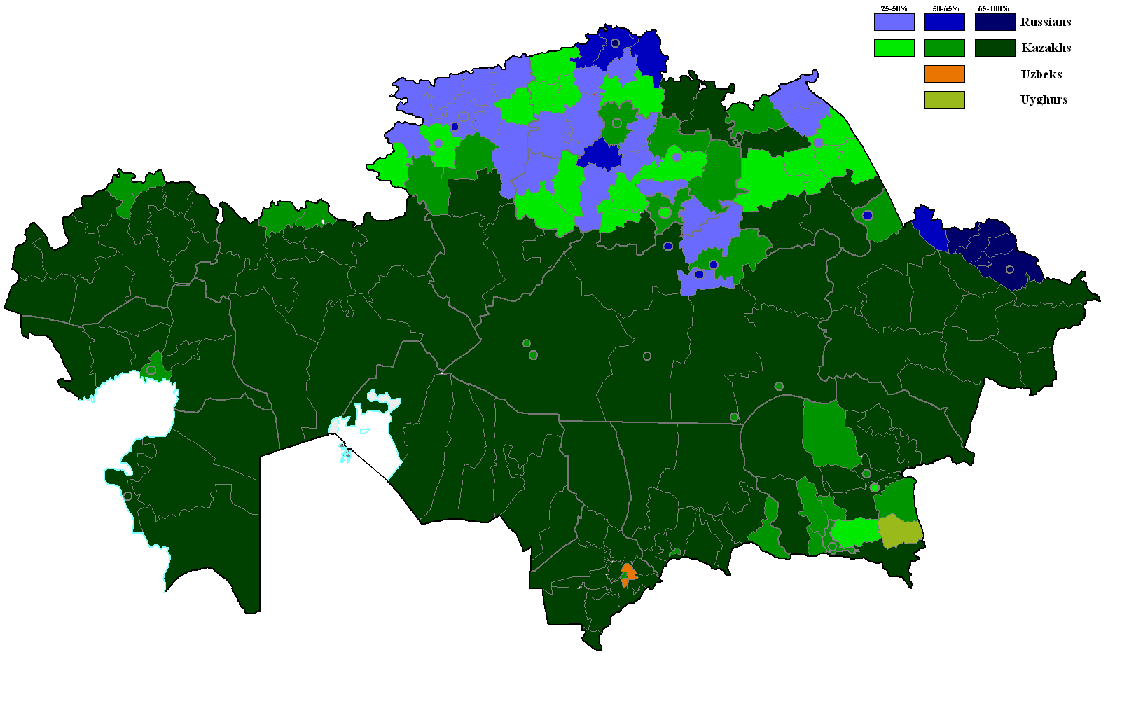 Ethnic map Kazakhstan (2010)